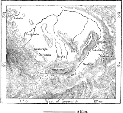 Map showing Timbo and the surrounding area in what is now Guinea, West Africa